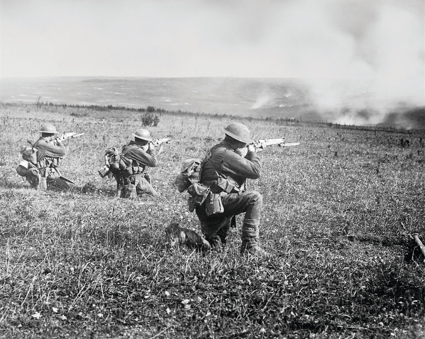 *Battle of the Hindenburg Line Source: 1918 - The Hindenburg Line Published in Edward Lynch's WWI memoir Somme Mud (2006) the caption reads Troops of the 45th Battalion at Ascension Farm sniping retreating Germans on the far hillside. The man kneeling on the far left is believed to be Edward Lynch in September 1918